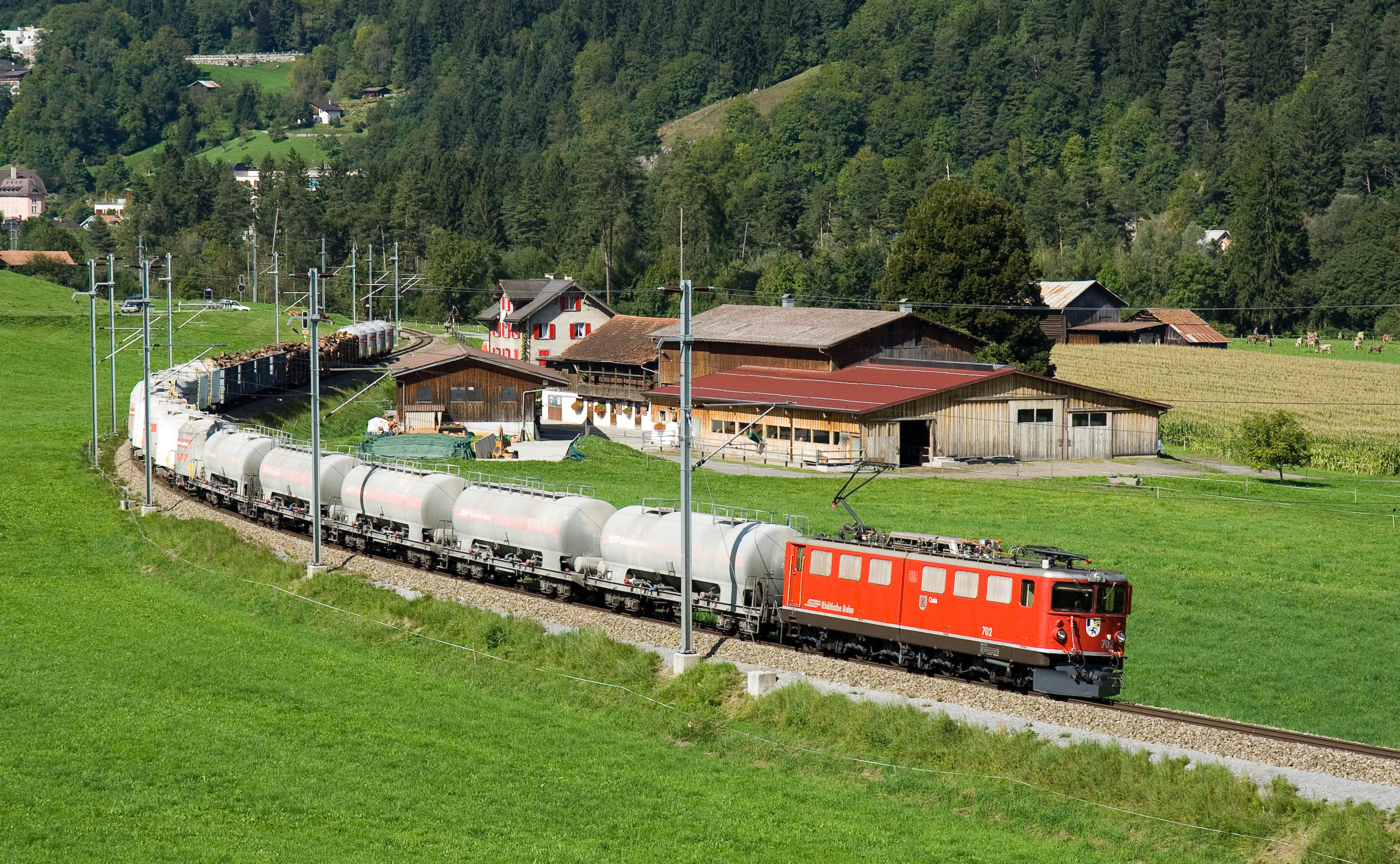 This RhB freight train carrying cement and wood has just left Ilanz and is headed for Chur. The train counts 27 cars, which is quite a lot for such a winding narrow gauge line, and is pulled by a Ge 6/6 II.